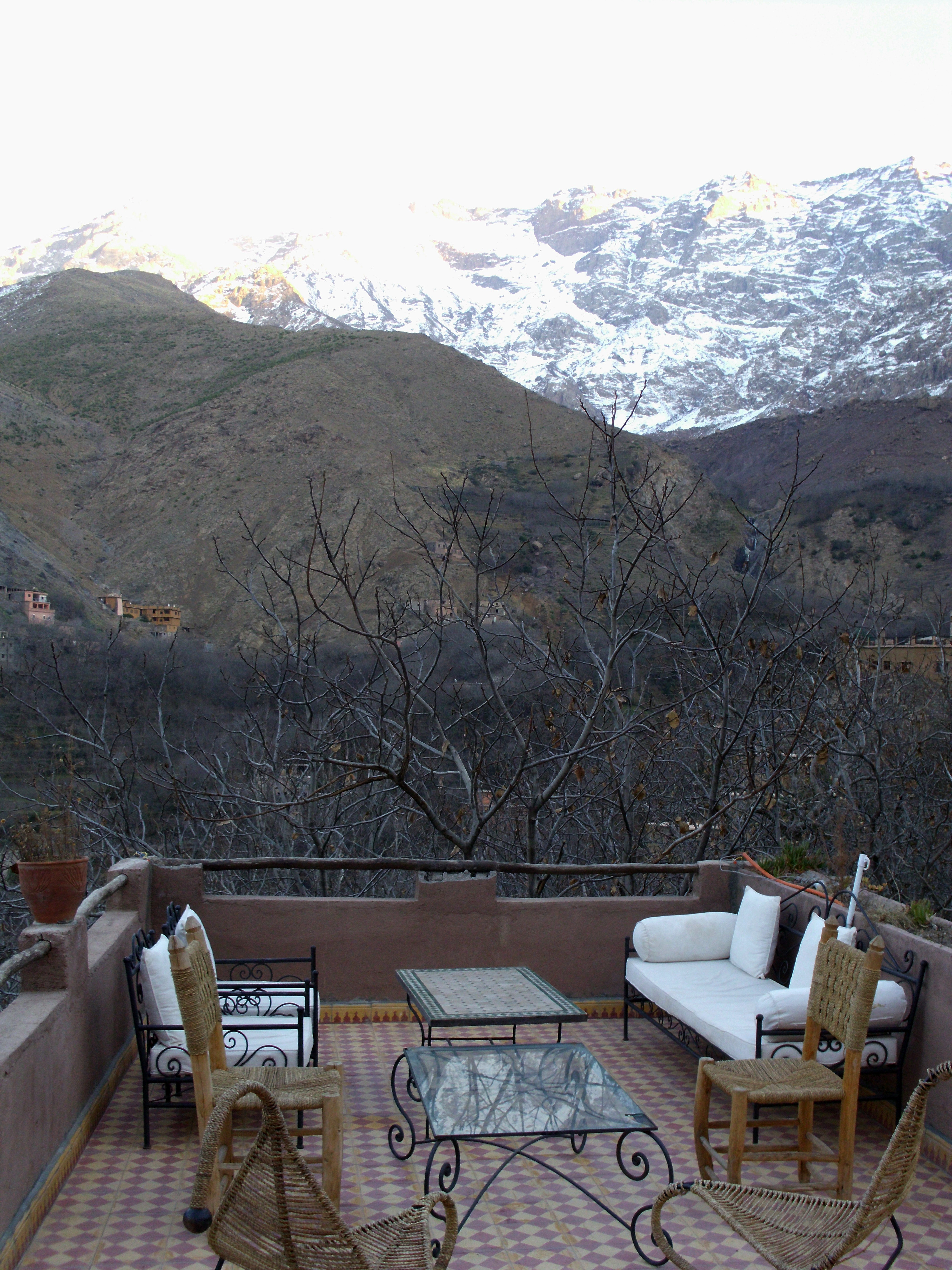 Imlil the highes village in the Atlas moutains - Toubkal National Park, Morroco